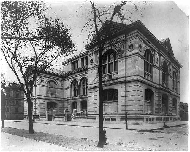 1 Lenox Library building, Fifth Avenue, New York City, circa 1905. photographic print.